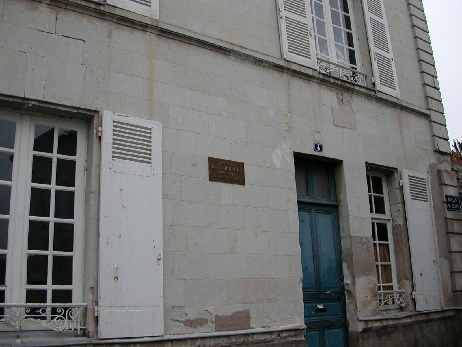 Native house of the printmaker Rodolphe Bresdin in Le Fresne-sur-Loire